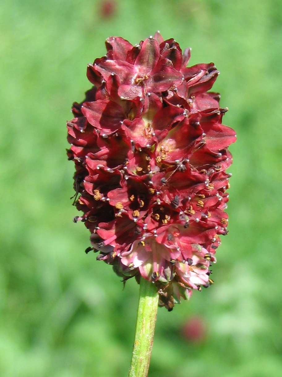 Sanguisorba officinalis